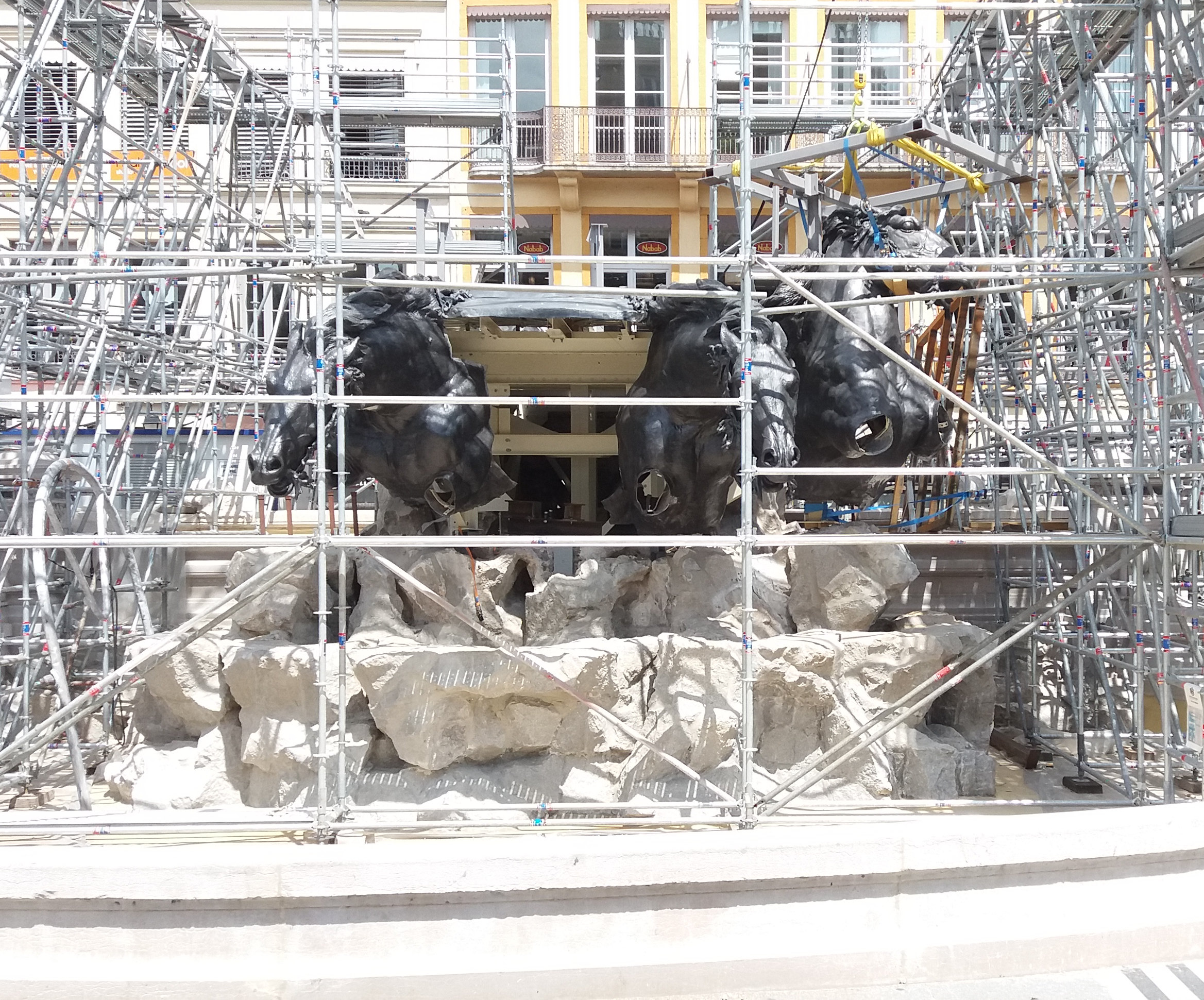 Fontaine Bartholdi en cours de remontage